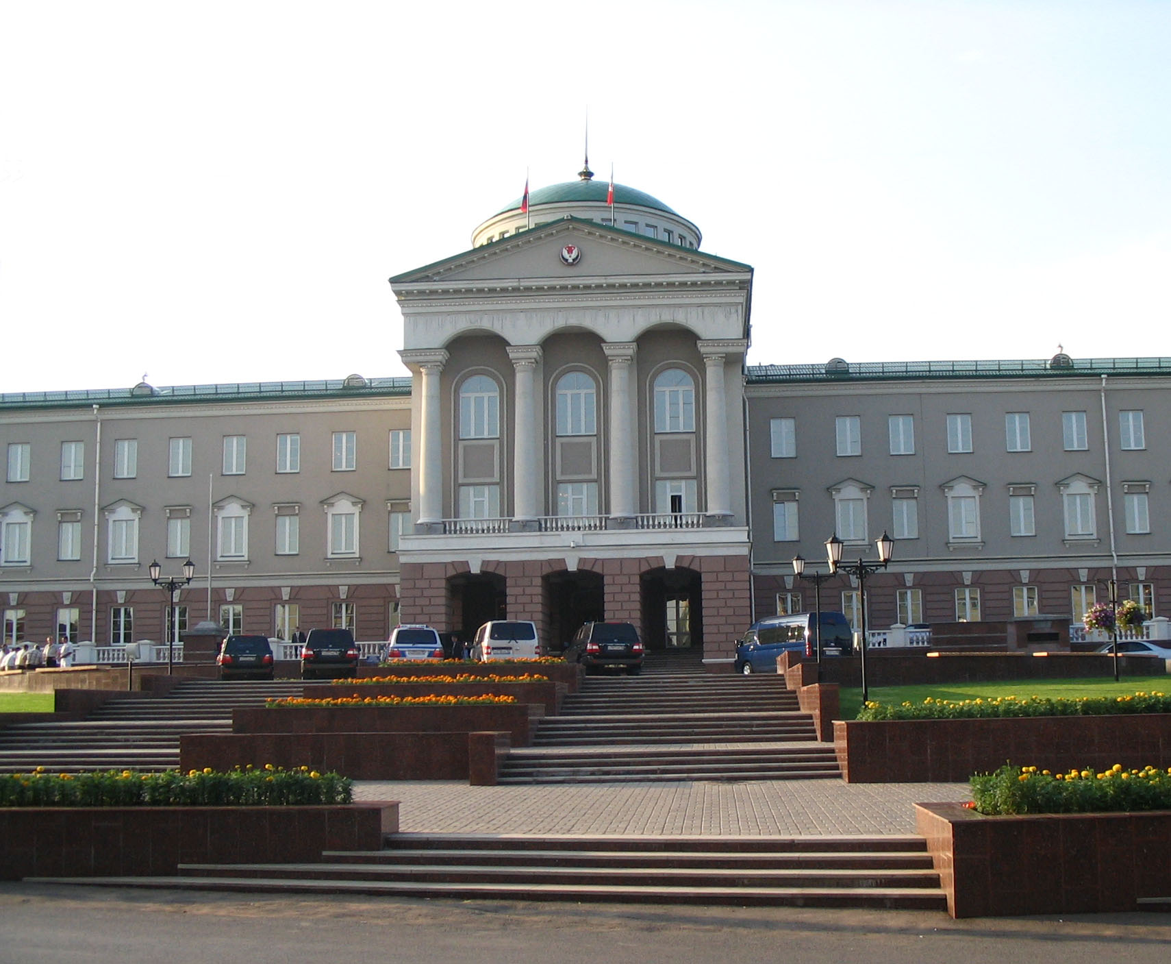 Residence, Izhevsk